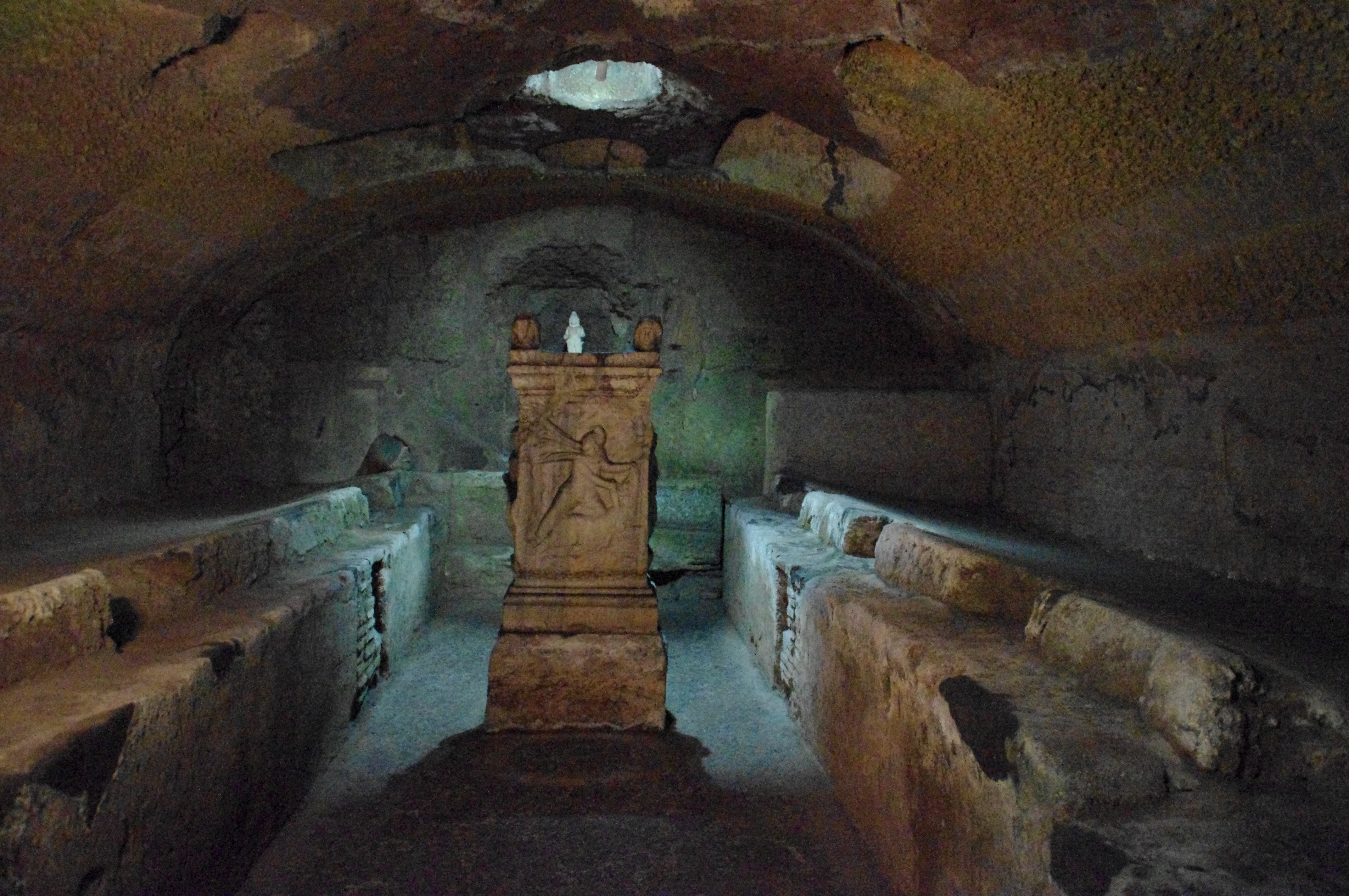 Mithraeum in lowest floor in San Clemente in Rome